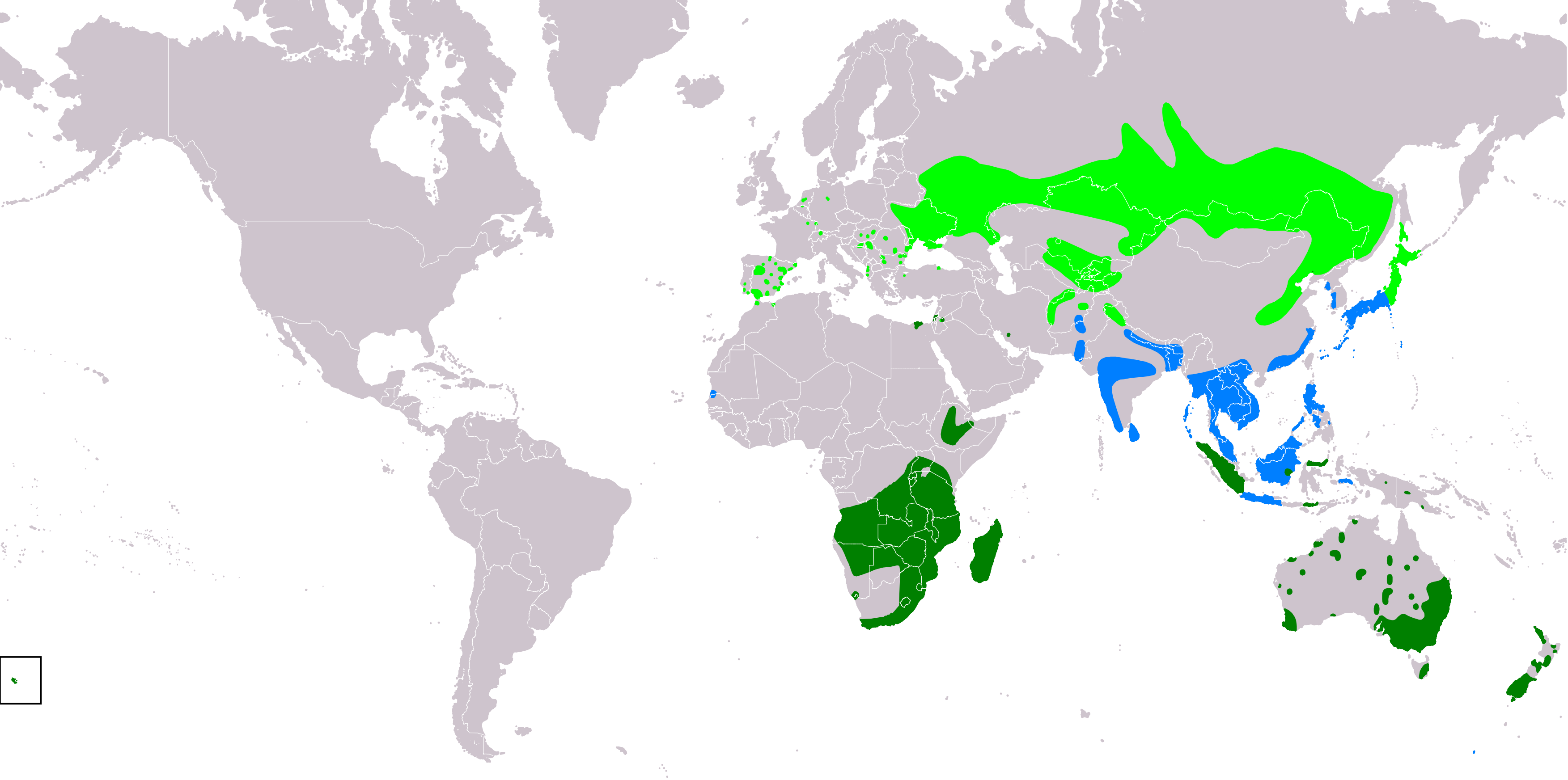 Distribution map of baillon's crake (Porzana pusilla syn. Zapornia pusilla) according to IUCN version 2019-2 ; key: Legend: Extant, breeding (#00FF00), Extant, resident (#008000), Extant, non-breeding (#007FFF)